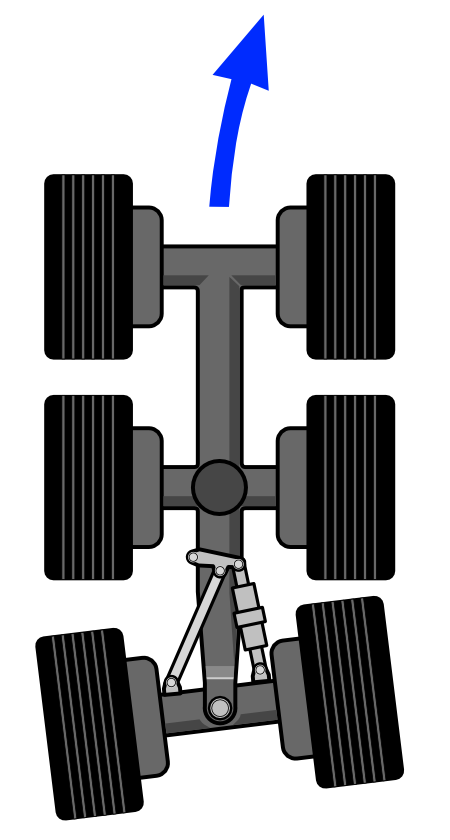 B-777 Main gear steering system When a front gear steered over 10 degree, main gear's rear 2 wheels will start those steering for minimizing turnning stress.